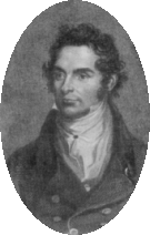 Portrait of William Scoresby jr